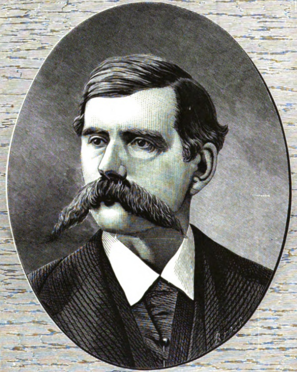 Portrait of Arthur Pember, from the frontispiece of his pseudonymous "The Mysteries and Miseries of the Great Metropolis" (1875)